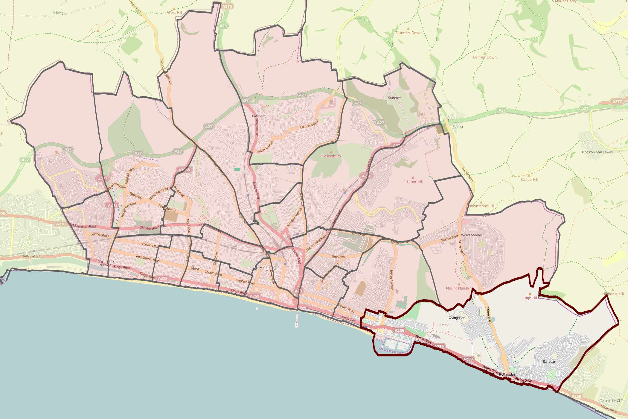 Map of Brighton and Hove wards with one ward highlighted